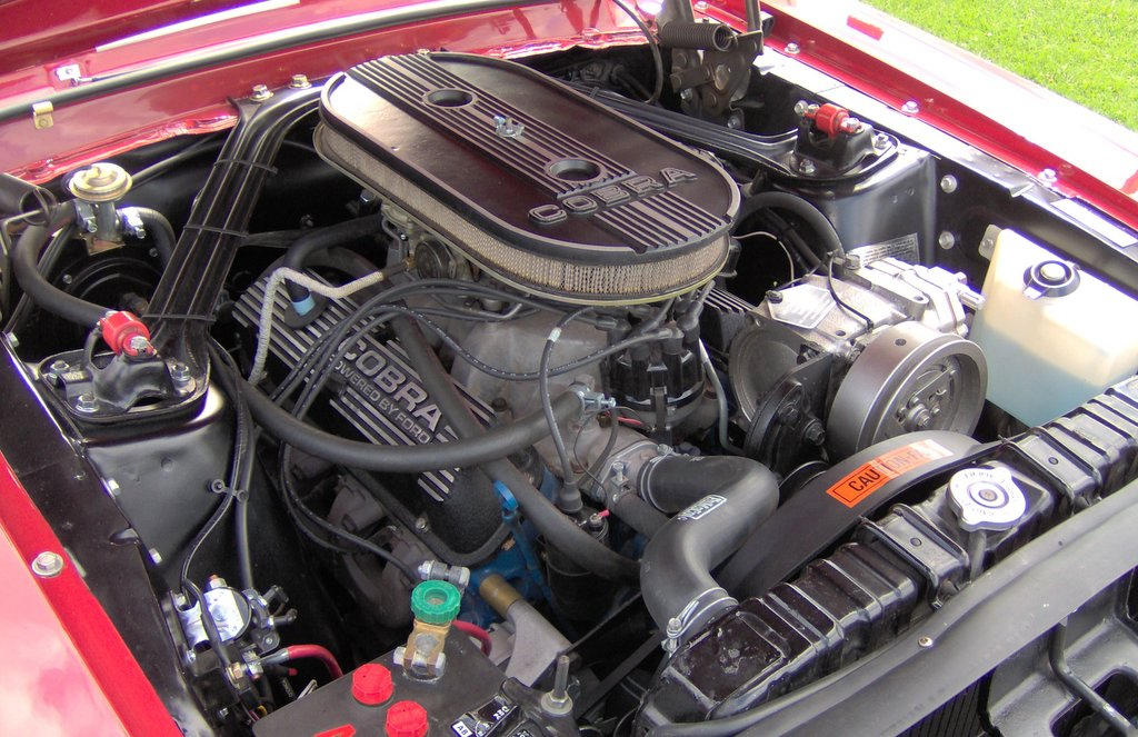 1968 Shelby GT350 289 "Windsor" V8 engine